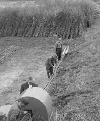 Machine to make faggots from willow branches (for use in hydraulic engineering)